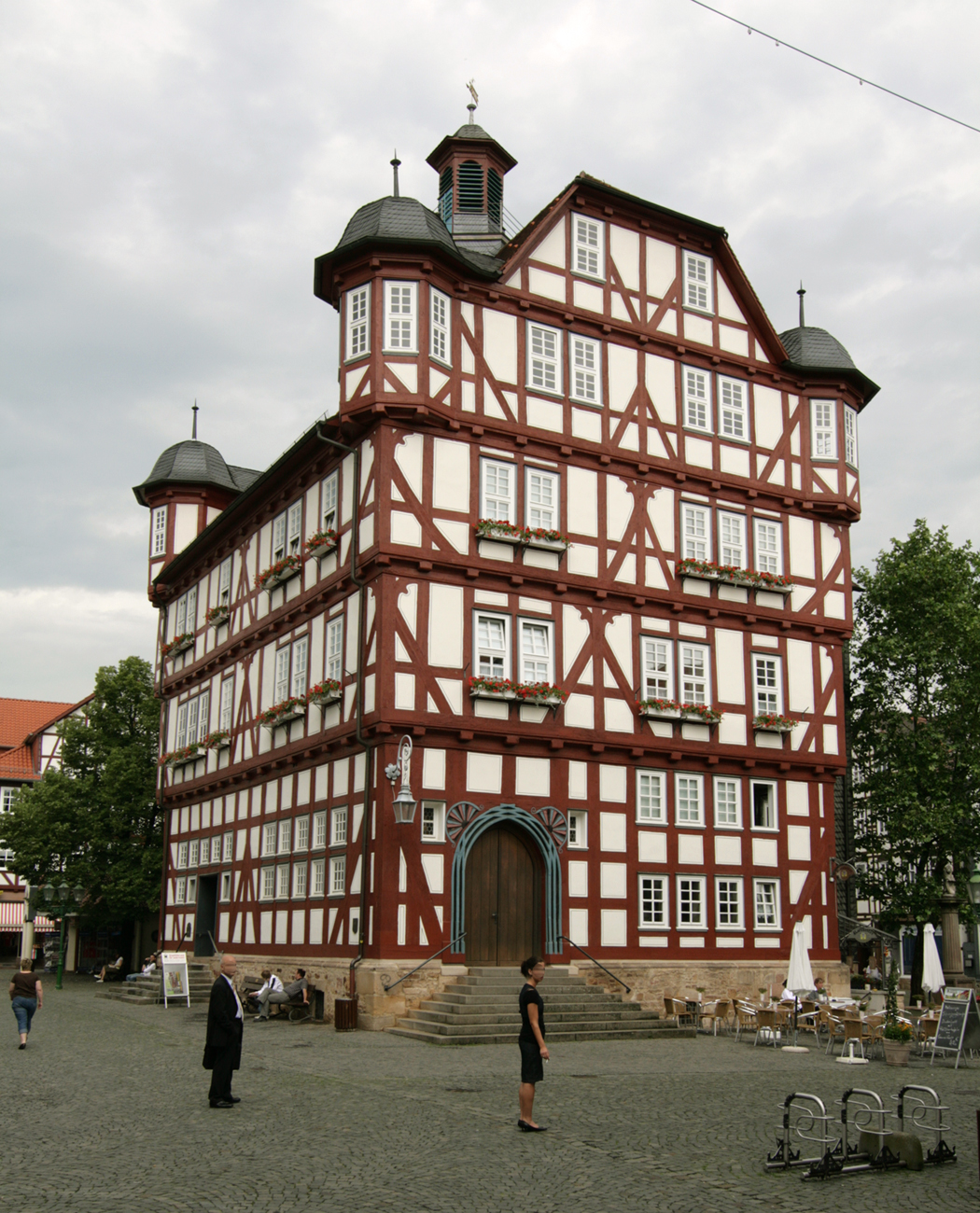 Town hall, Melsungen, Hesse. Built 1554.